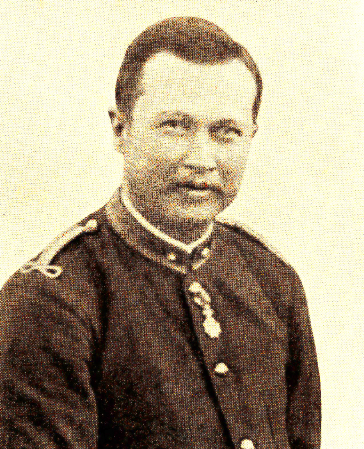 Generaal van Daalen